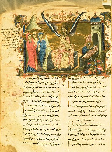 Erevan, Matenadaran, MS 979, Lectionary of Het'um II, Cilicia, 1286, Holy Women at the Empty Tomb